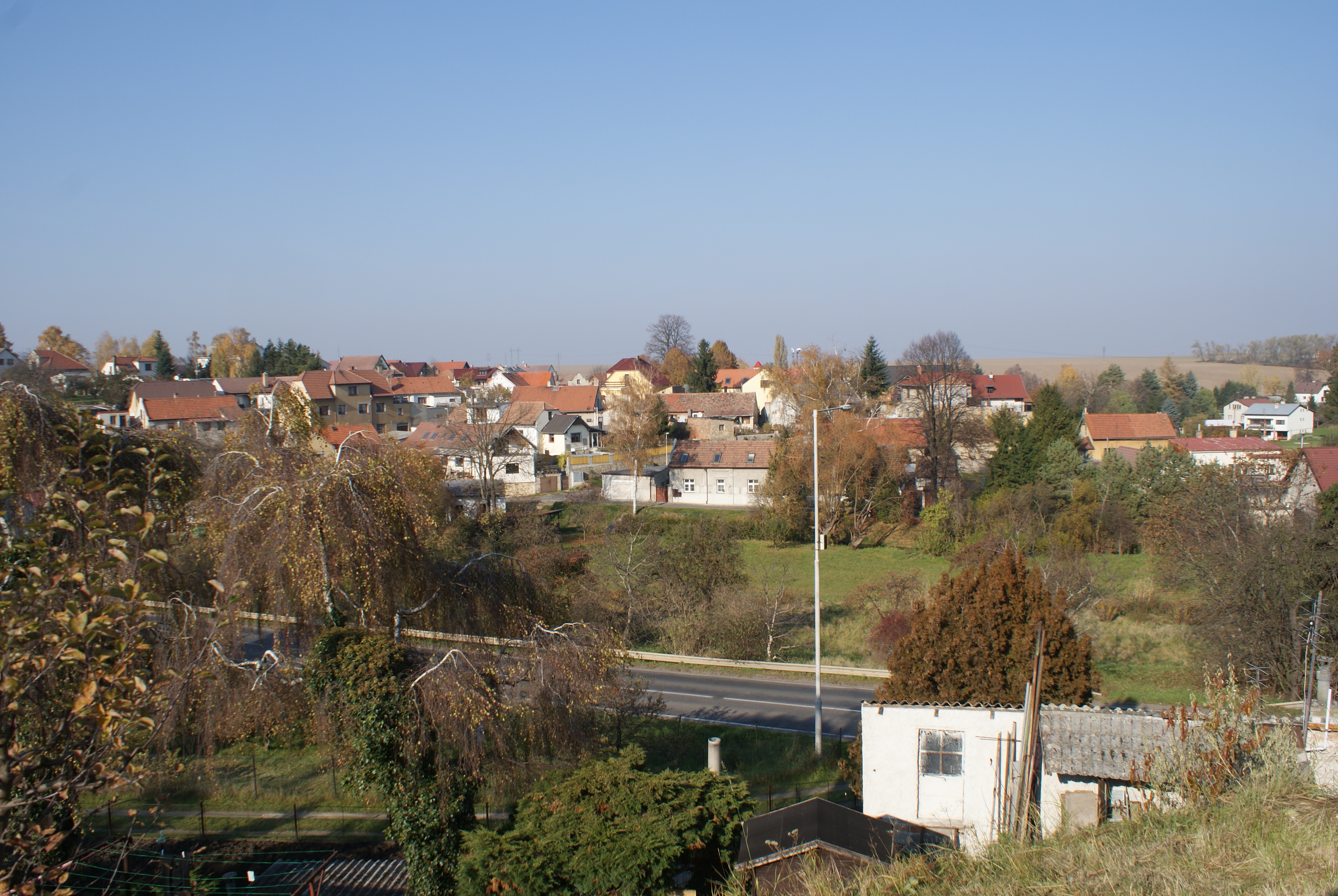 Podolanka, a village in the Prague-East District, Czech Republic.